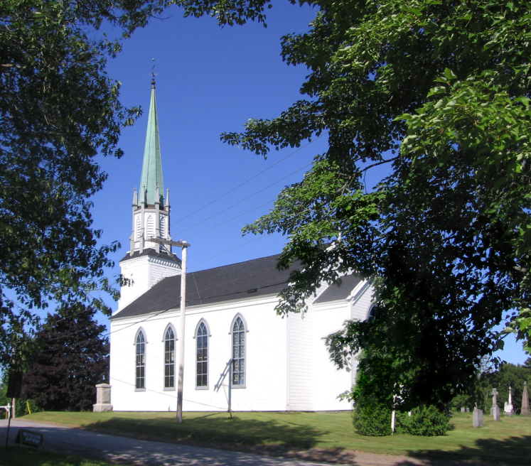 Trinity Church in Kingston, New Brunswick, Canada. Along with the nearby rectory, it was designated a National Historic Site of Canada in 1977. The oldest surviving Anglican church in New Brunswick and a rare Maritimes example of a church and rectory surviving as a unit.